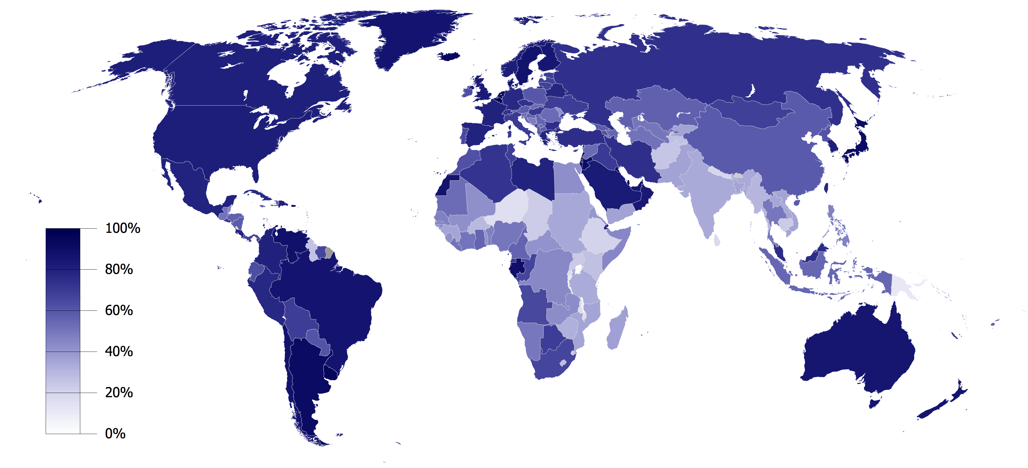 Urbanized population percentage by country as of 2018. Source of data points: CIA World Fact Book This map was created with GunnMapGunnMap was created by Arthur Gunn and is available, free, at and attribute by linking to